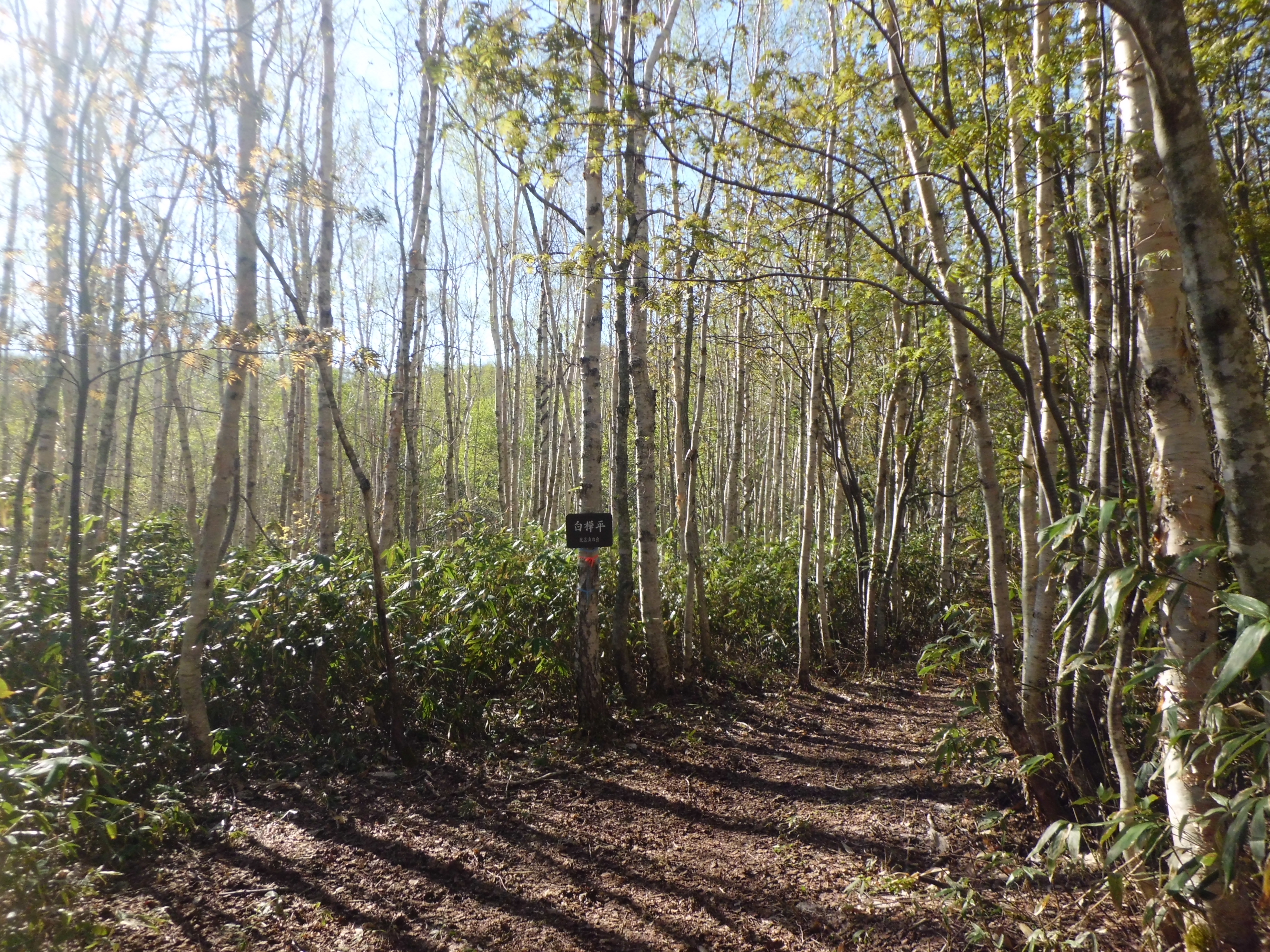 Shirakaba-daira of Mount Kitahiro